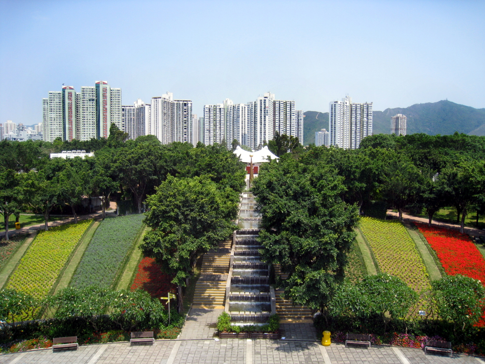 Tai Po Waterfront Park 大埔海濱公園, with Ming Nga Court (left) and Fu Shin Estate (right)